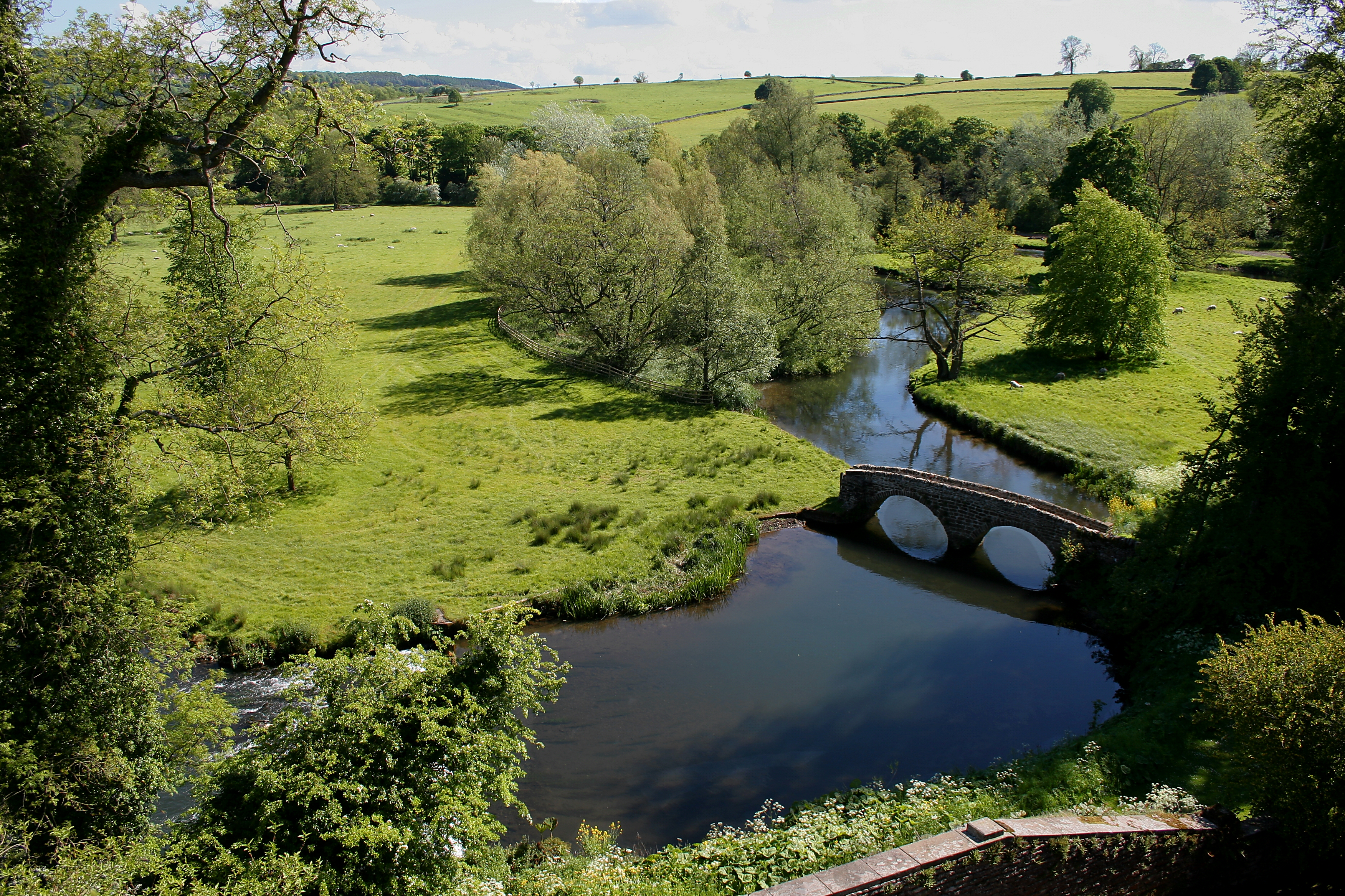 Countryside at Haddon Hall, Derbyshire